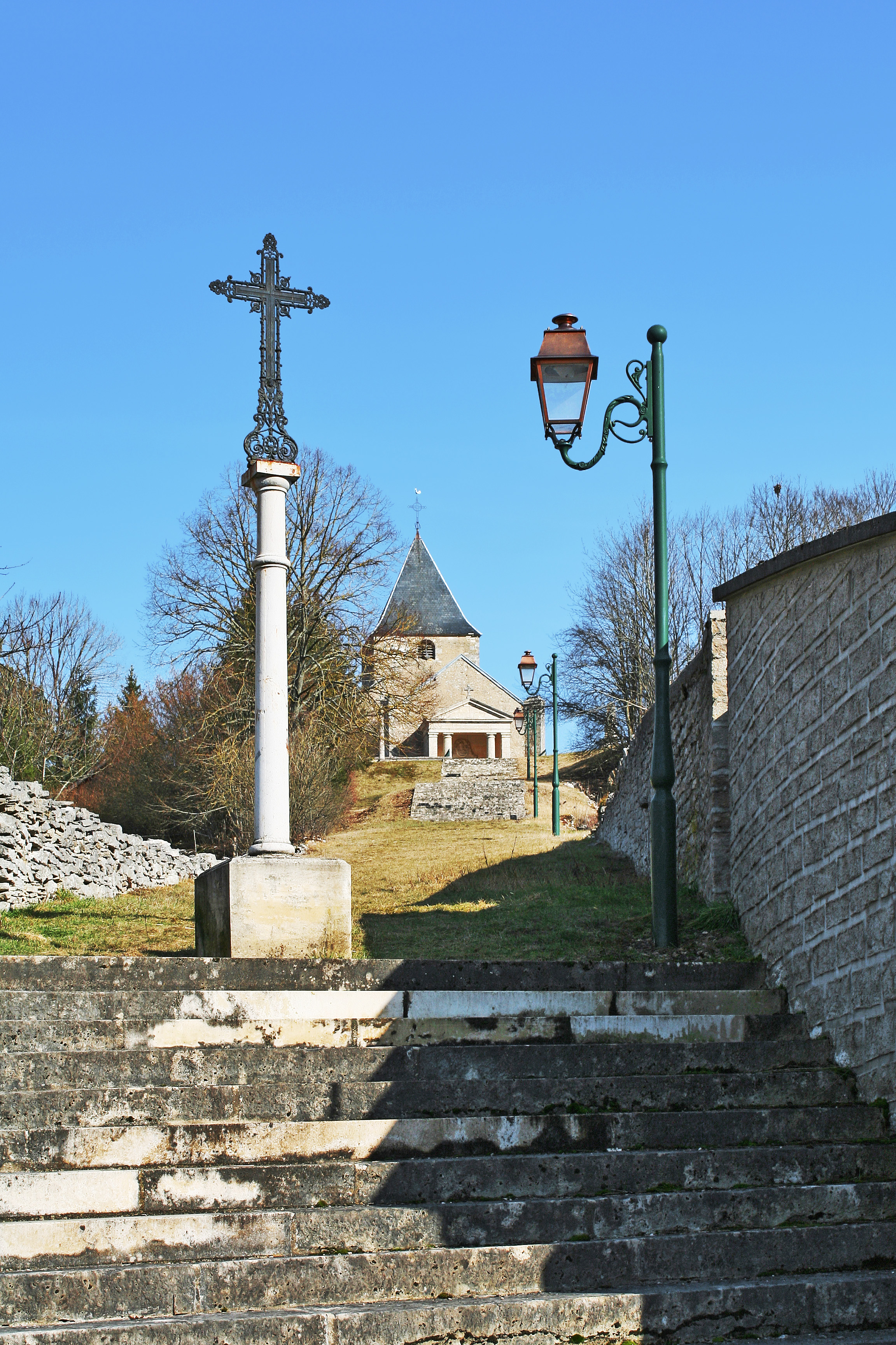 Cross at the foot of the church of Buncey